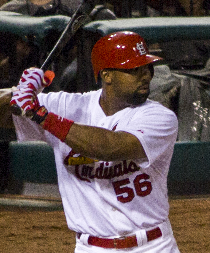 Cardinal player Joey Butler 2014